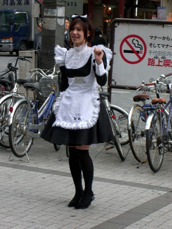 She was only too happy to pose for some fans!09 Maid Cafe - Akihabara